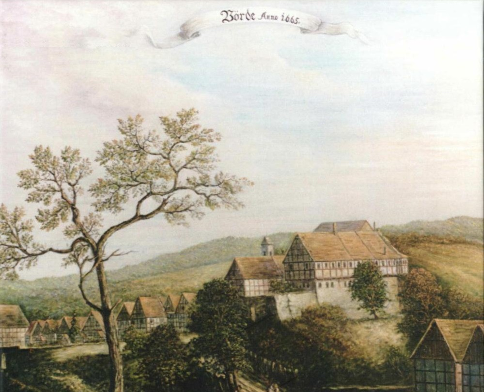 Cropped part of the picture of Vörden in 1665. This picture is one of 63 artworks Fabritius did for the Hochstift Paderborn (Veduten). Not all of the buildings in this image are painted exactly at their real location (stylistic device of change in perspective) or necessarily in the exact state which they had at the time of painting.